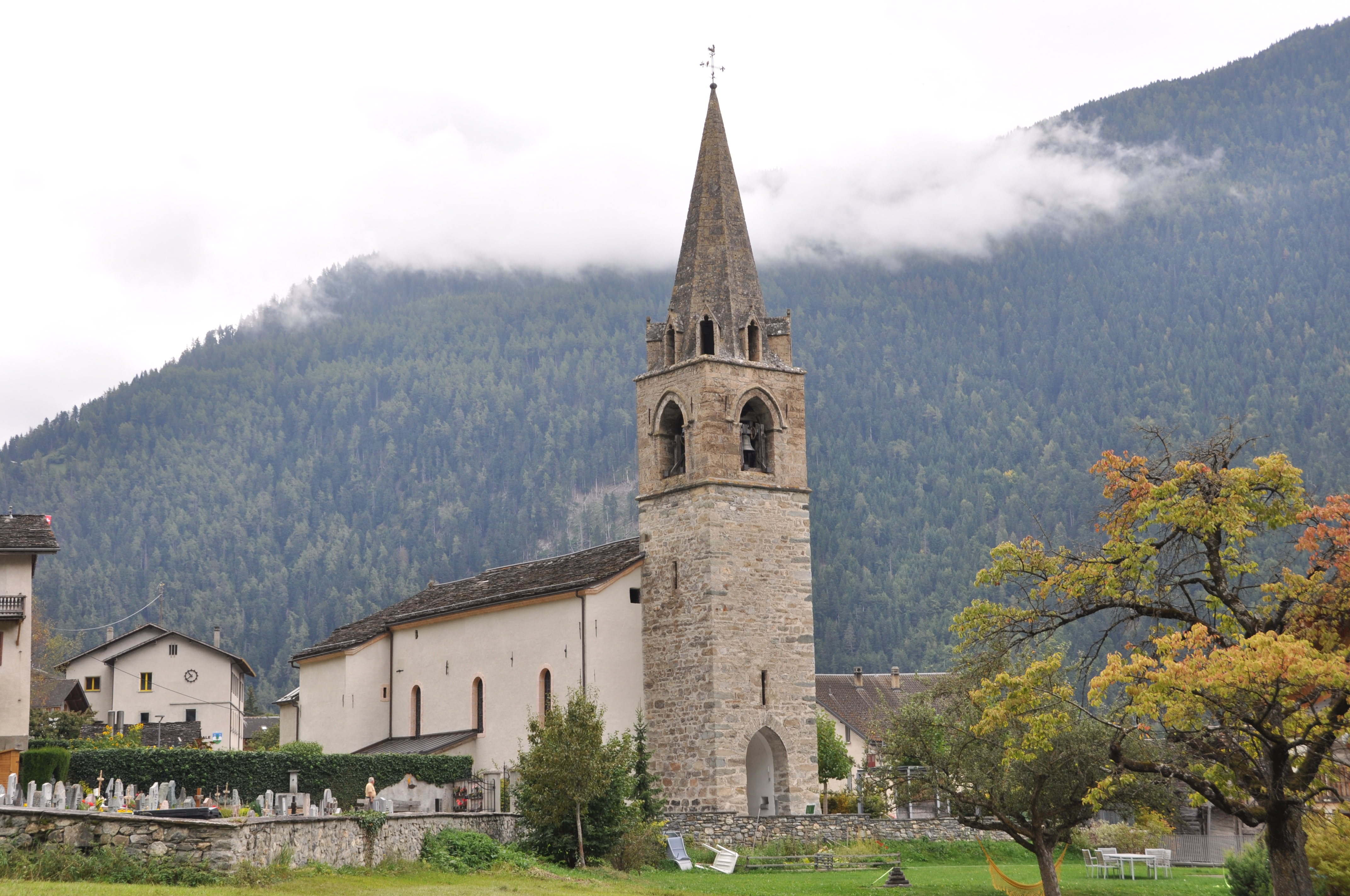 Église Saint-Martin